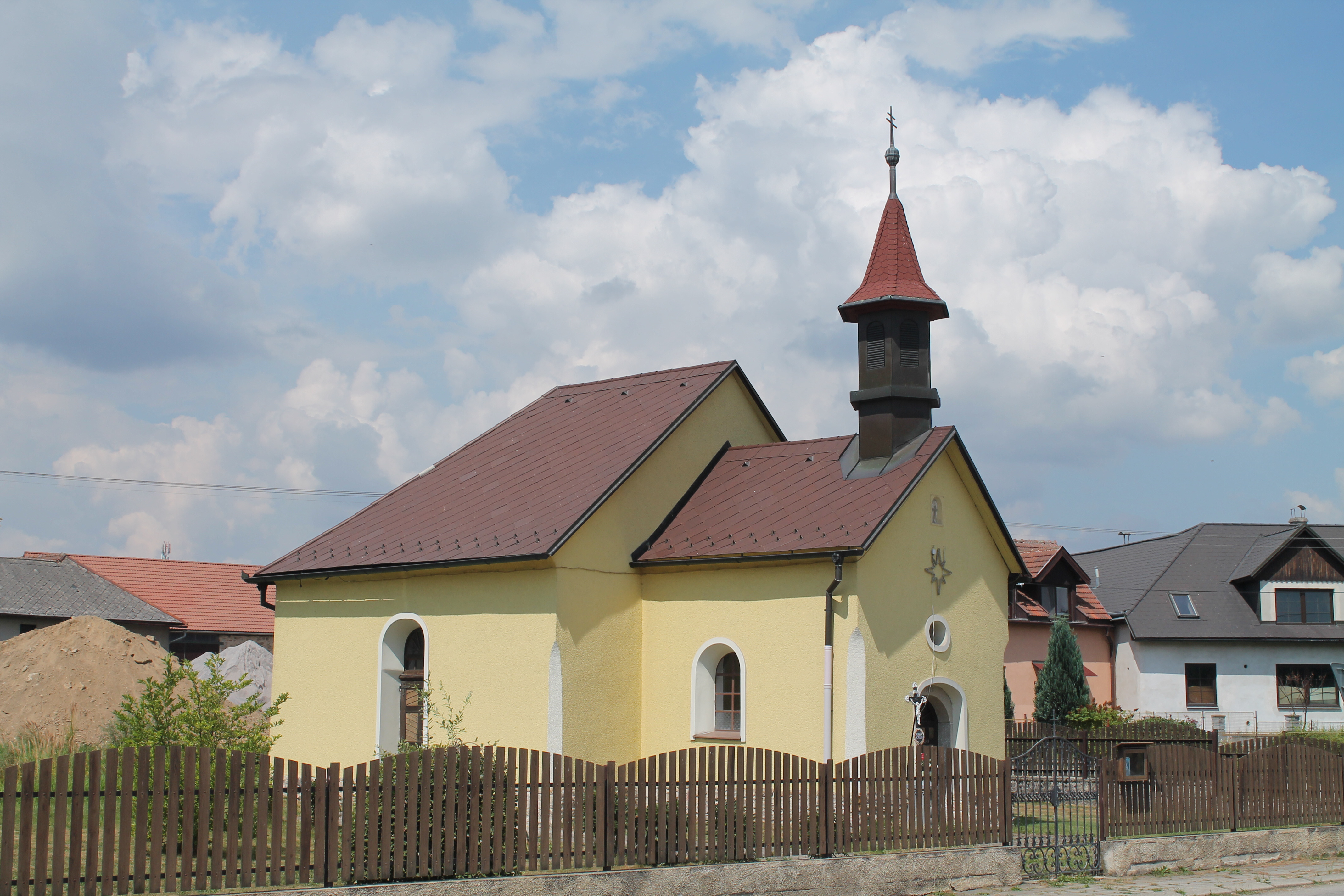 Chapel, Milíčov, Jihlava District, Czech Republic